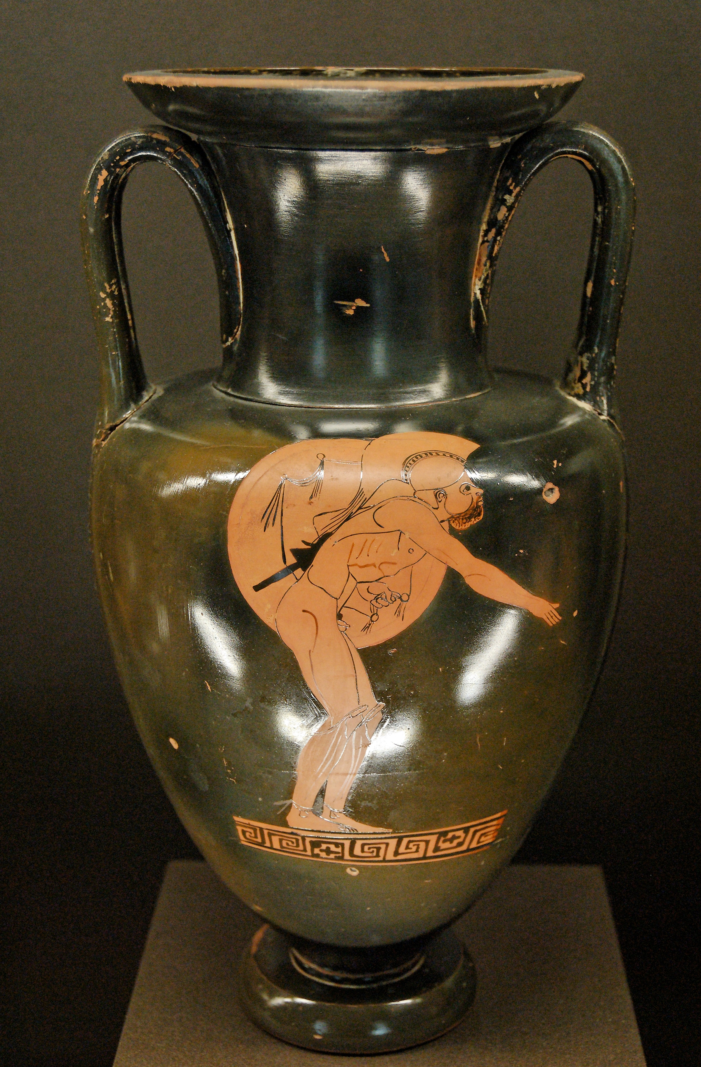 Hoplitodromia (race in armour). Side A from an Attic red-figured neck-amphora, ca. 480–470 BC.